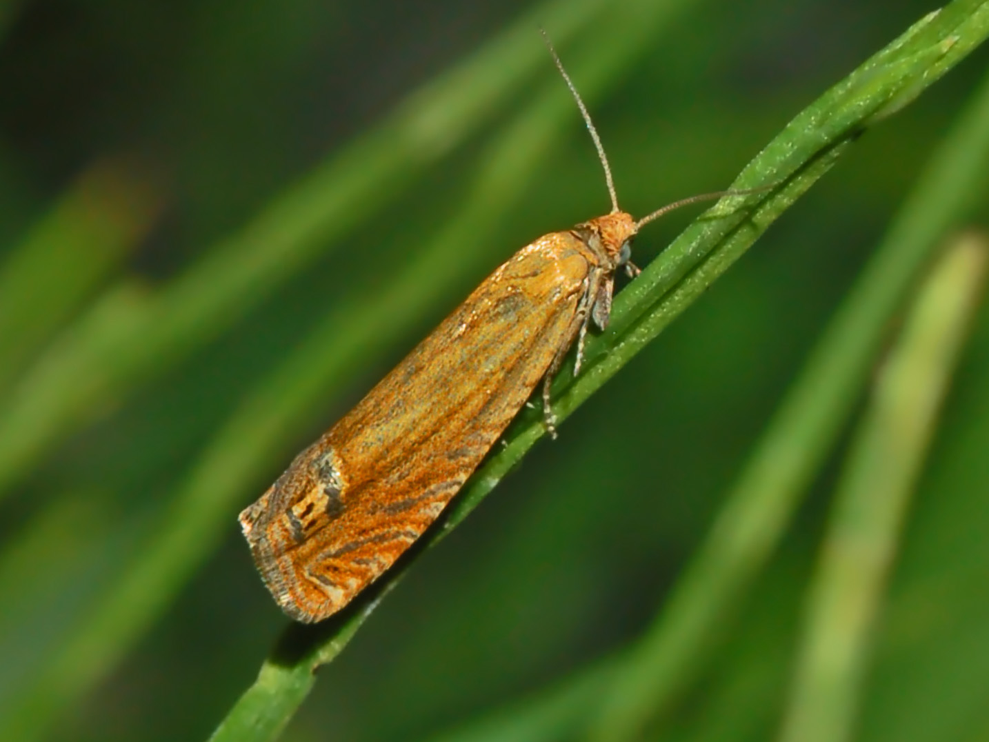 Lathronympha strigana